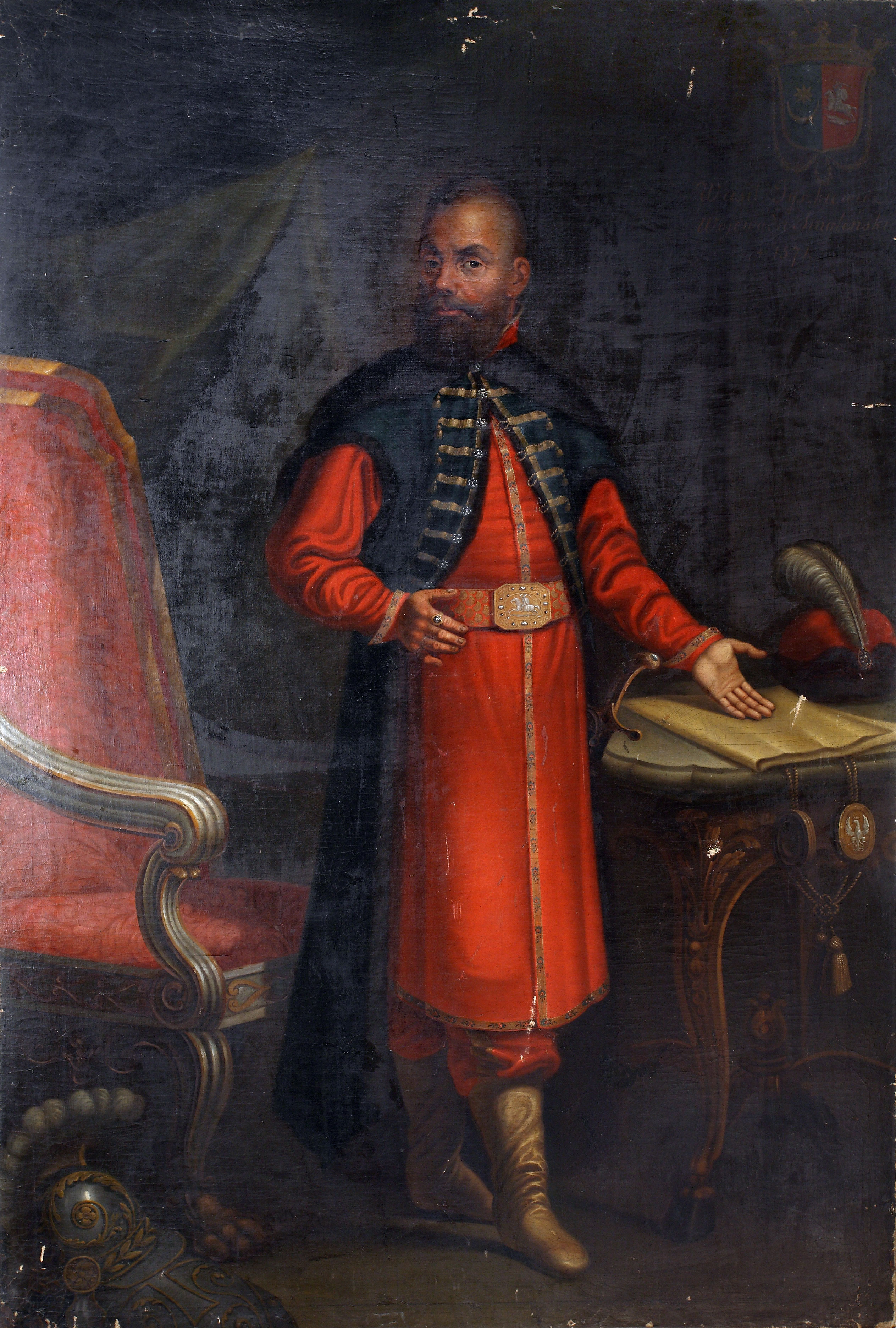 Portrait of Wasyl Tyszkiewicz (1492-1571)